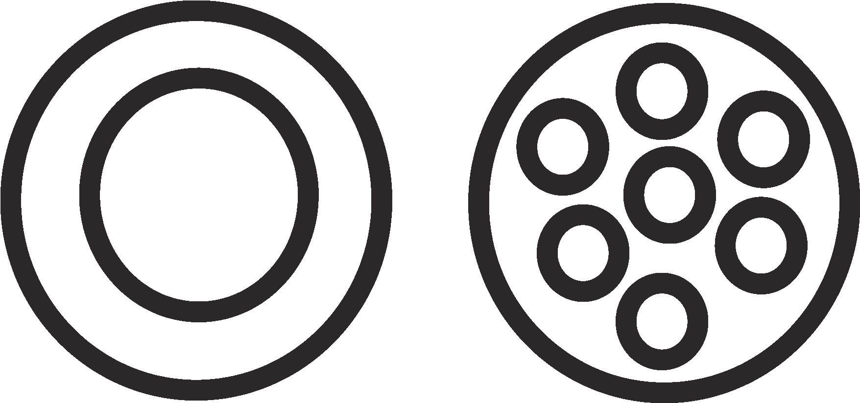 Cross sections of hollow fibres